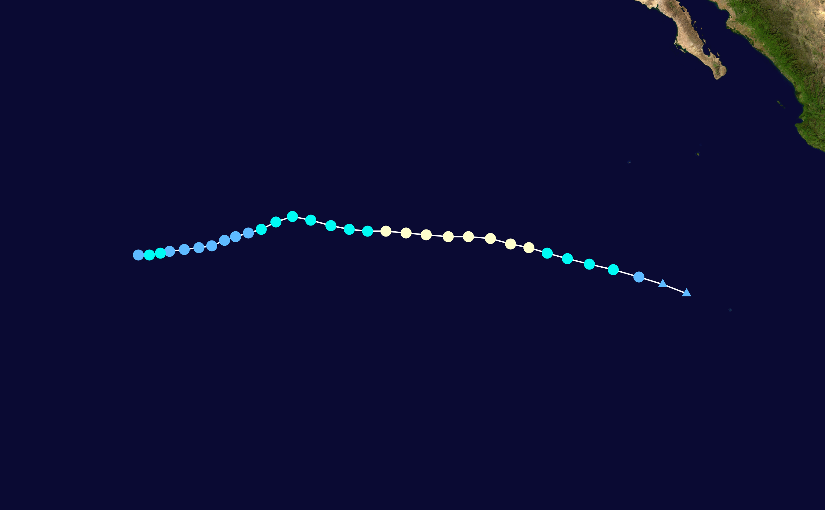 Track map of Hurricane Gil of the 2013 Pacific hurricane season. The points show the location of the storm at 6-hour intervals. The colour represents the storm's maximum sustained wind speeds as classified in the Saffir–Simpson scale (see below), and the shape of the data points represent the nature of the storm, according to the legend below. Saffir–Simpson scale Tropical depression≤38 mph≤62 km/h Category 3111–129 mph178–208 km/h Tropical storm39–73 mph63–118 km/h Category 4130–156 mph209–251 km/h Category 174–95 mph119–153 km/h Category 5≥157 mph≥252 km/h Category 296–110 mph154–177 km/h Unknown Storm type Tropical cyclone Subtropical cyclone Extratropical cyclone / Remnant low / Tropical disturbance / Monsoon depression